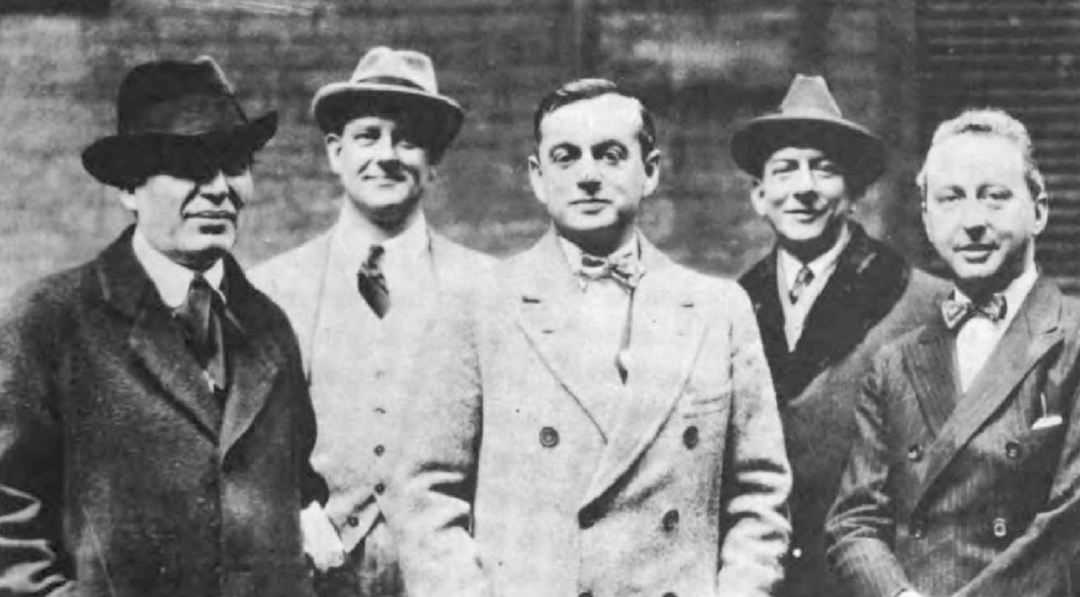 Photo of Morris Gest, P. G. Wodehouse, Guy Bolton, F. Ray Comstock and Jerome Kern taken circa 1917 (by the mention of the 1917 production Leave it to Jane). The book was published in the US by Ziff-Davis (A. S. Barnes & Co.) in 1960. It was also published in the UK by Thomas Yoseloff Ltd. Because HathiTrust limits full viewing of much material to those in the US and does so by IP resolution (as does Google Books), those outside of the US are limited to being able to search only. I am including copies of the front pages of the book with title and copyright information in the upload. A search for renewal of the book was done at . There were no renewals for the title. A search for copyright renewals for the author, Stanley Green, found he had renewed only one book from 1963 on Rogers & Hammerstein. Renewal Type of Work: Text Registration Number / Date: RE0000562785 / 1991-12-23 Renewal registration for: A00000616568 / 1963-03-18 Title: The Rodgers and Hammerstein story. By Stanley Green. Copyright Claimant: Stanley Green (A) Variant title: The Rodgers and Hammerstein story. Names: Green, Stanley There's no evidence of continuing copyright for this book.